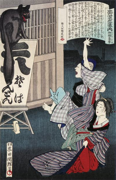 Akarinashinosoba, from the Honjo-nana-fushigi, Woodblock print (nishiki-e); ink and color on paper